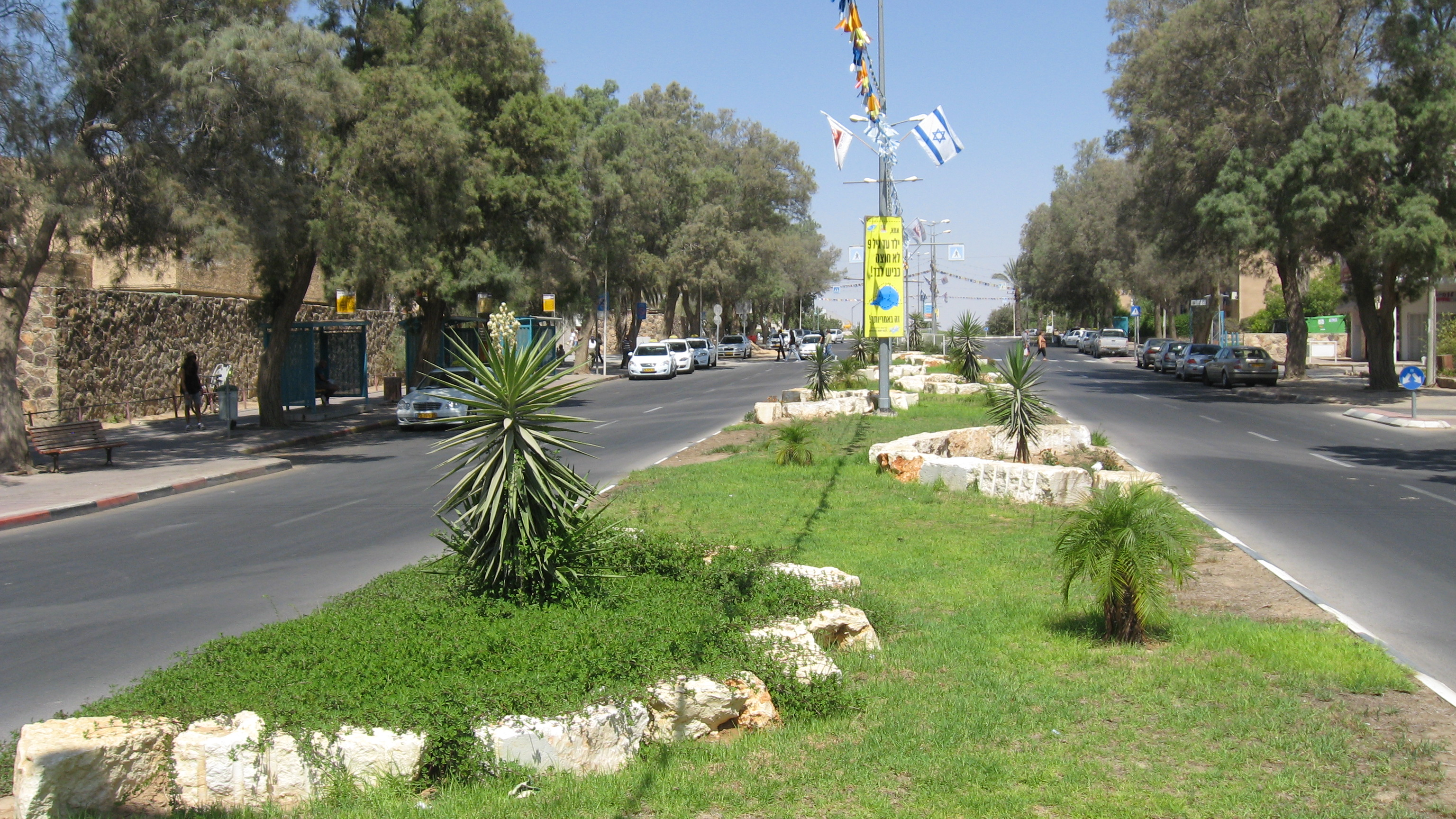 Cities in Israel